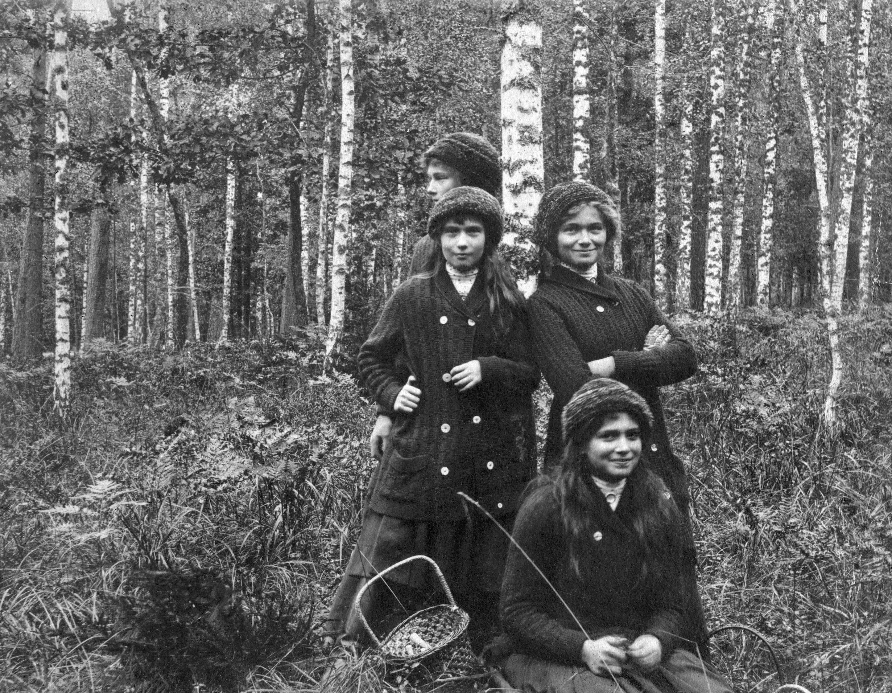 OTMA mushroom picking in Finland.